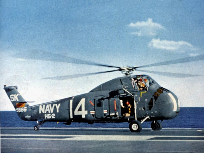 A U.S. Navy Sikorsky HSS-1 Seabat (BuNo 145666) of Helicopter Anti-Submarine Squadron HS-2 "Golden Falcons" aboard the aircaft carrier USS Yorktown (CVS-10). HS-2 was assigned to the Yorktown for a deployment to the Western Pacific from 1 November 1958 to 21 May 1959.